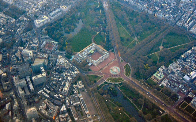 Buckingham Palace Viewed from an airliner at 4000 feet heading for Heathrow. The Palace is in two squares but the front is in the nominated square. An interesting and unusual view!